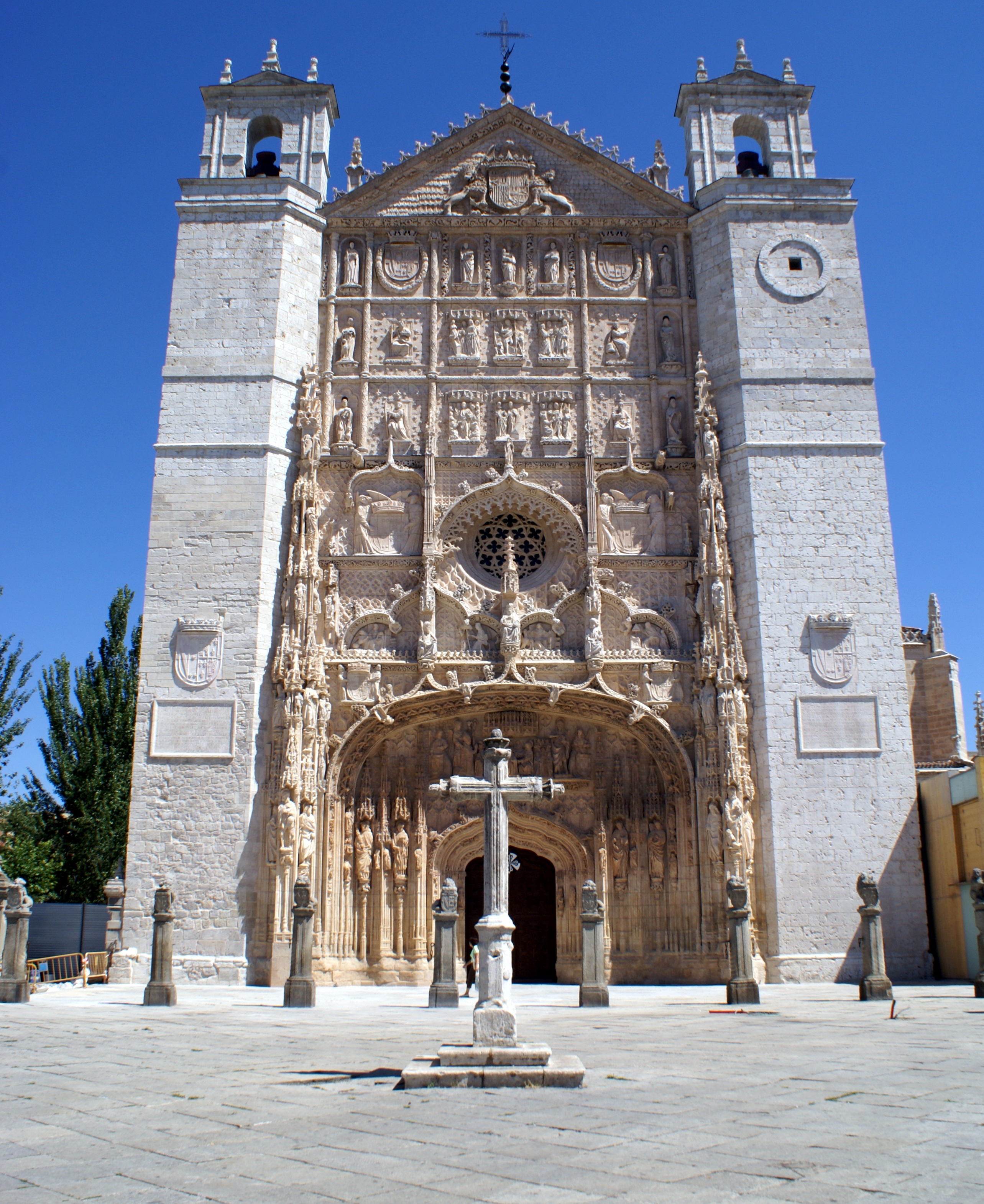 Façade of San Pablo Church in Valladolid, Spain.